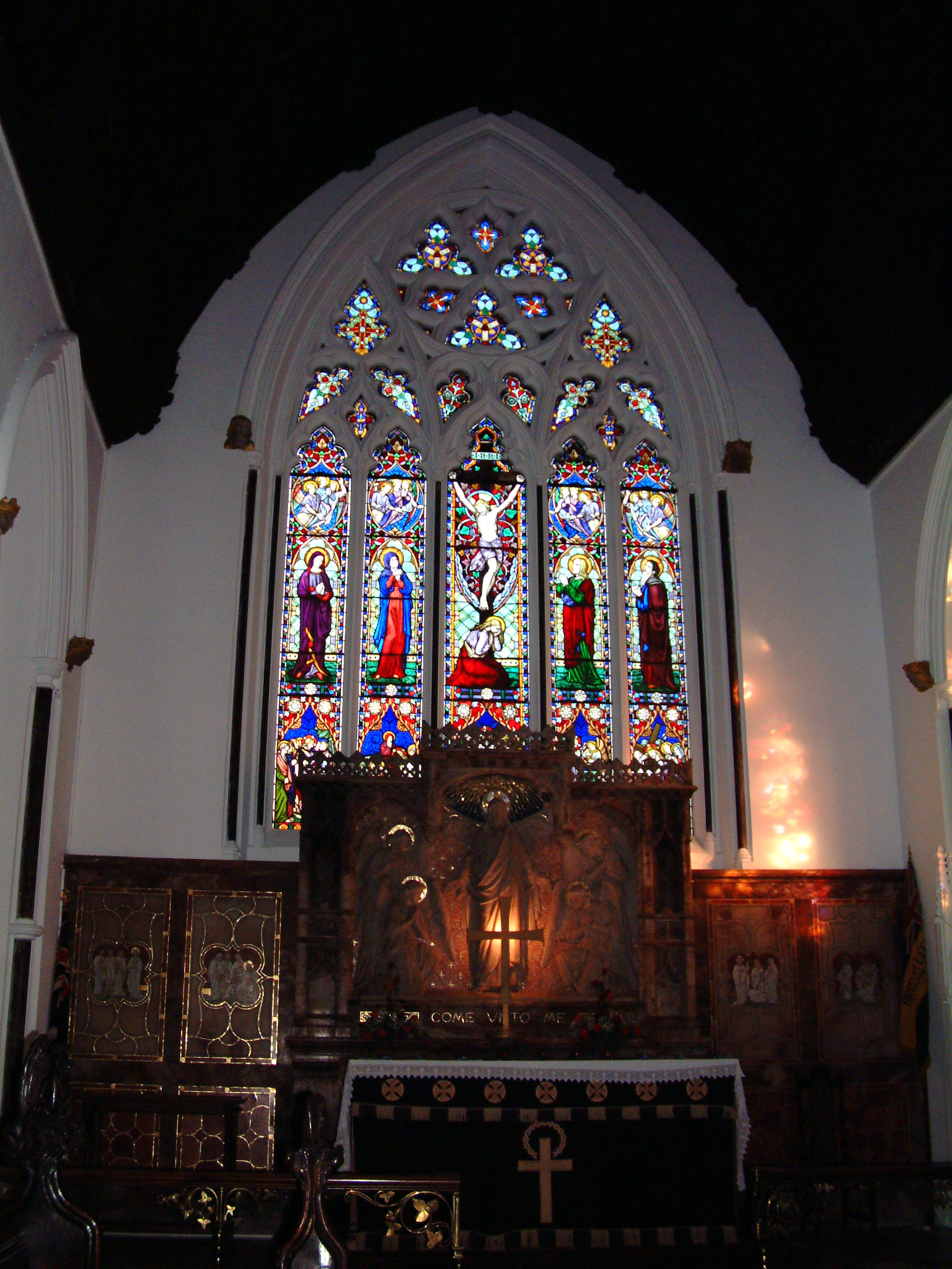 Altar and east window in the chancel of Holy Trinity parish church, Stapleton, Bristol, England